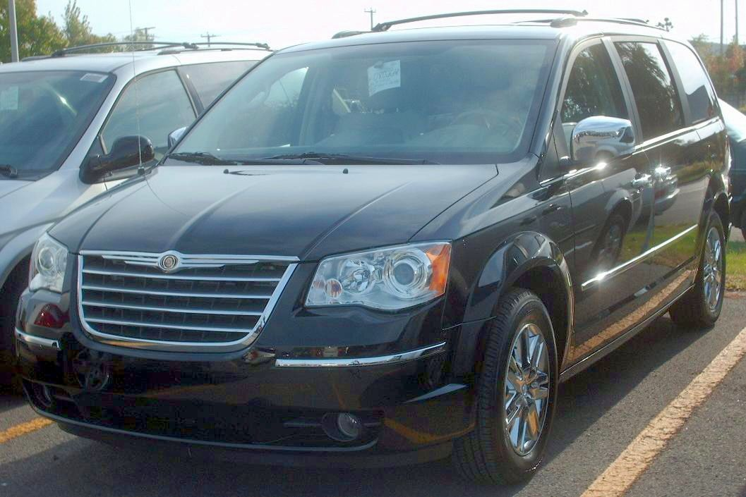 2008-2010 Chrysler Town & Country photographed in Montreal, Quebec, Canada.